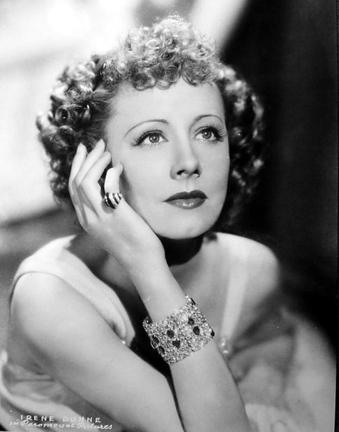 Promotional photograph of actor Irene Dunne (1937)